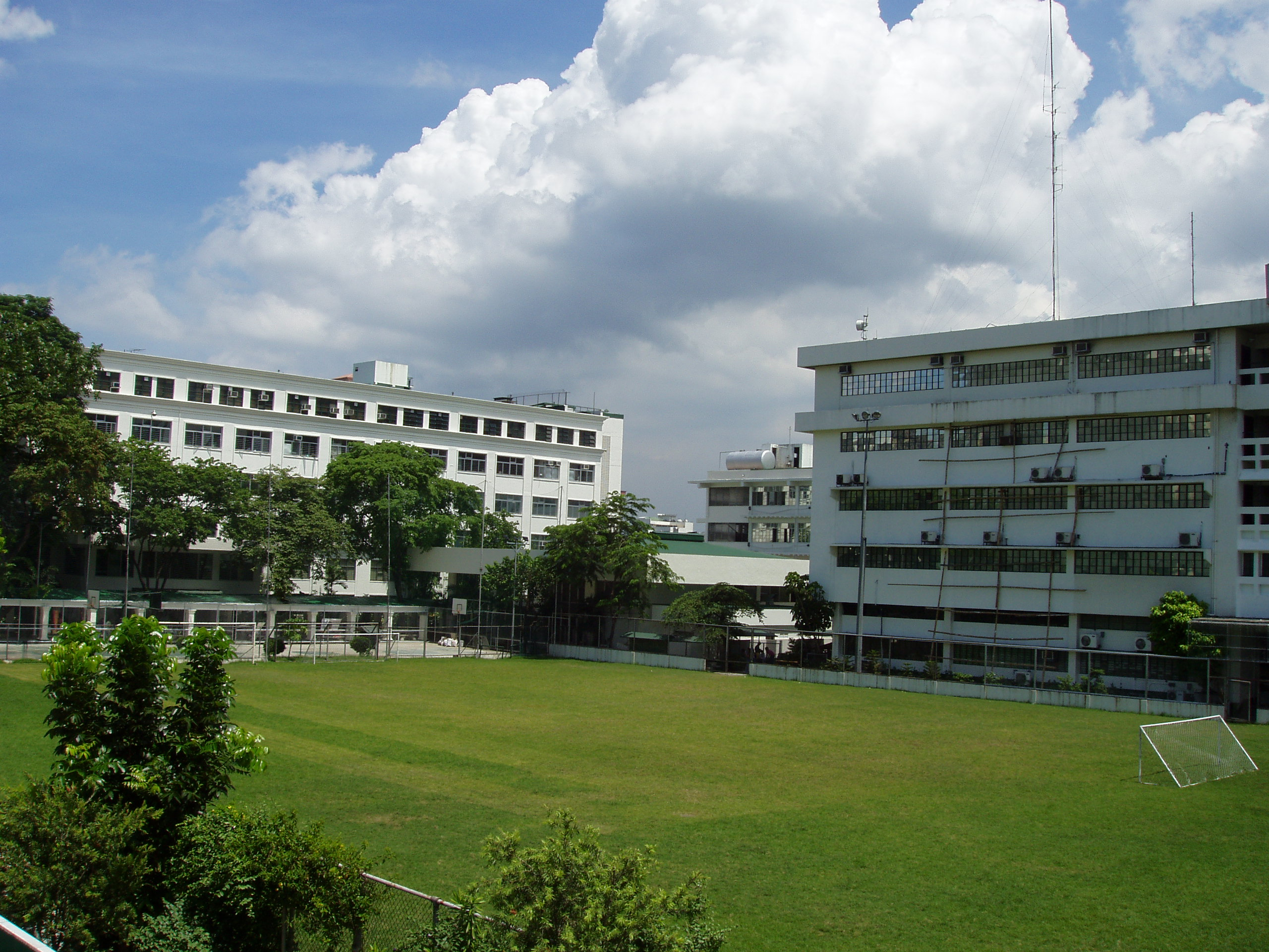 Football field of De La Salle University-Manila. Self-taken.